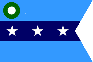 Flag of an Air marshal in Pakistan Air Force